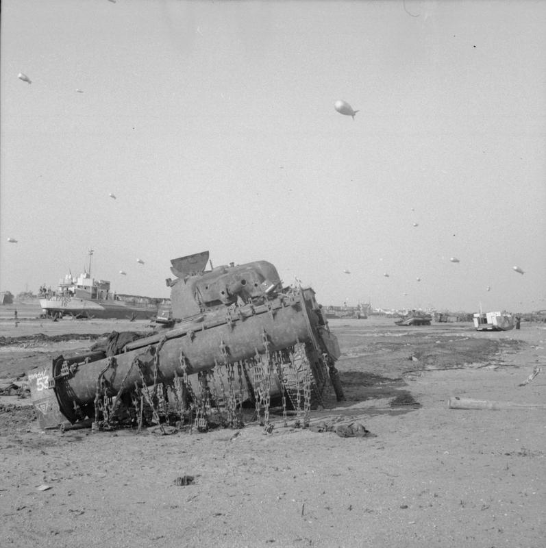 The British Army in Normandy 1944 A disabled Sherman Crab flail tank of the Westminster Dragoons, 79th Armoured Division, on Sword Beach, 7 June 1944.